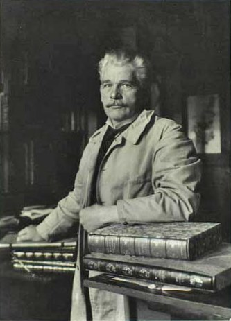 Anker Julius Kyster (1864-1939), Danish bookbinder